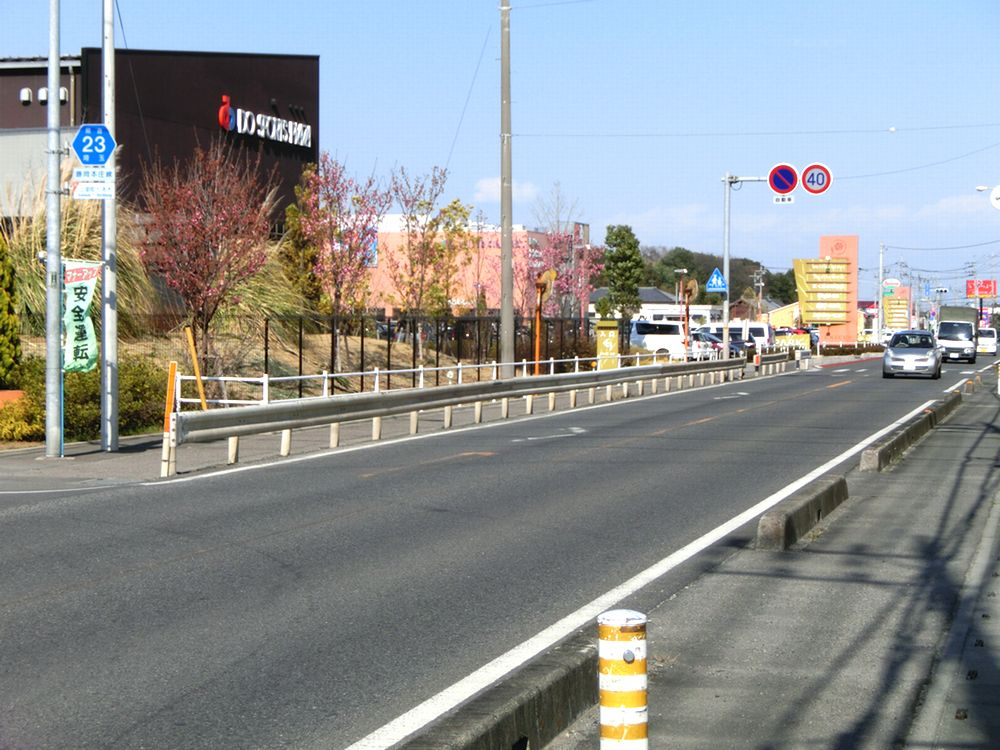 The Saitama Prefectural Road Route 23 in Shichihongi, Kamisato Town